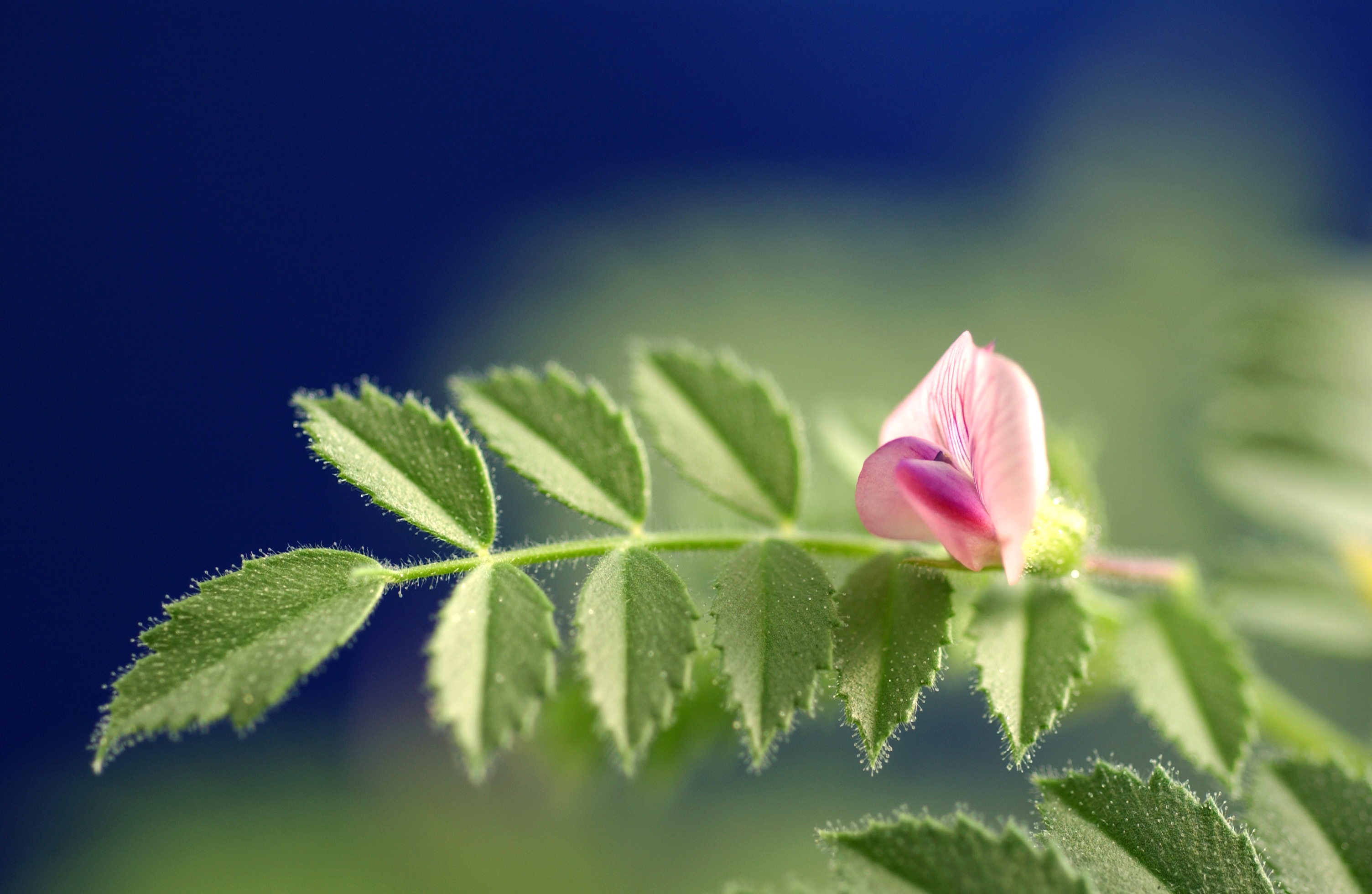 Chickpea productivity in Australia is constrained because it is not well adapted as a winter annual; it cannot set pods under cool conditions. This exposes the crop to drought late in the season every year. CSIRO Plant Industry is characterising global chickpea environments so that they can identify cold tolerance in wild and cultivated chickpea relatives from cool areas.